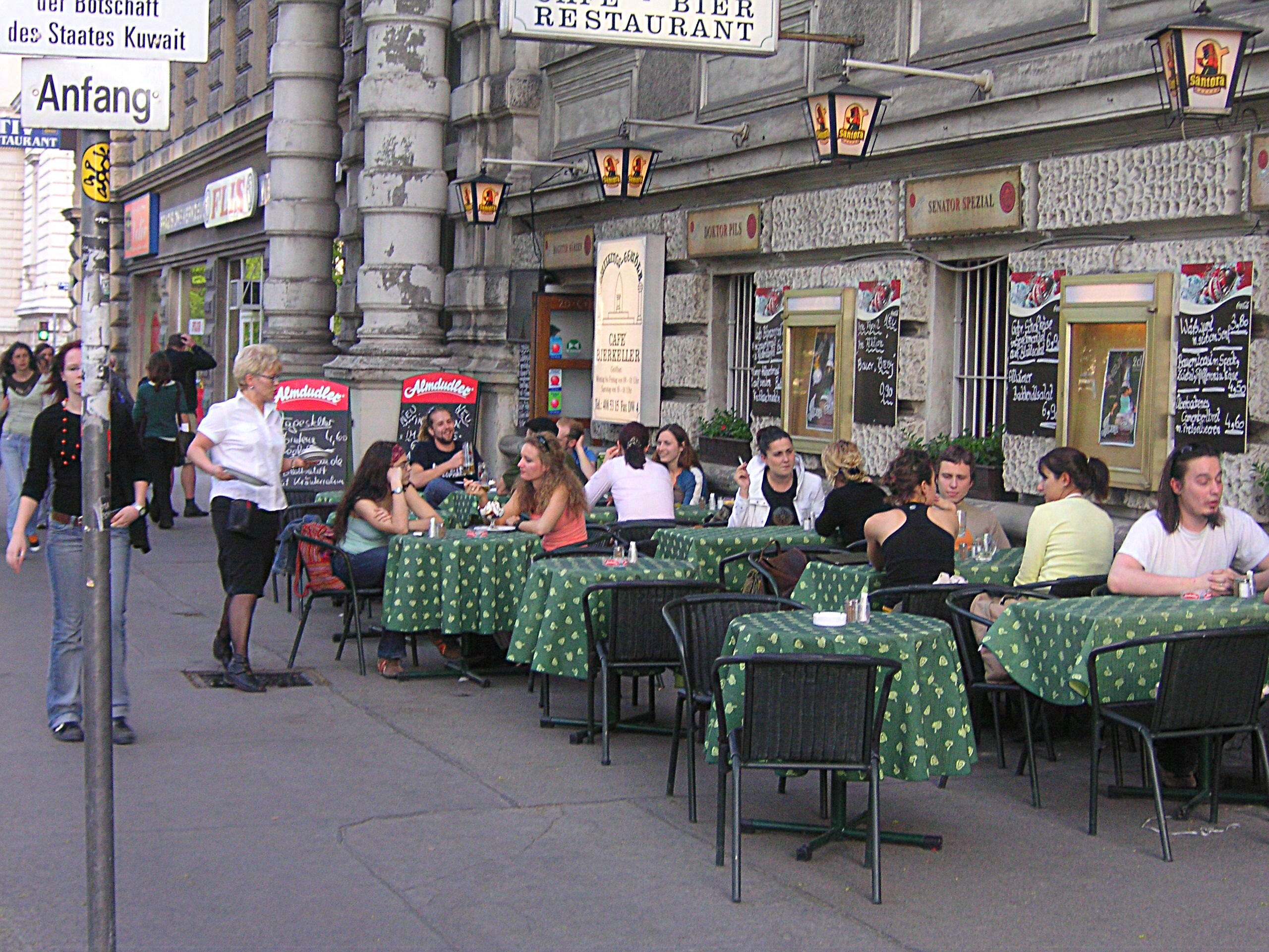 One of the many typical Schanigärten in Vienna, Austria. This one is situated next to the main building of the University of Vienna in Vienna's first district, Innere Stadt. The name of the café is Zwillings-G'wölb ("Twin Vaults"). The two chalkboards next to the entrance bear the Almdudler logo.